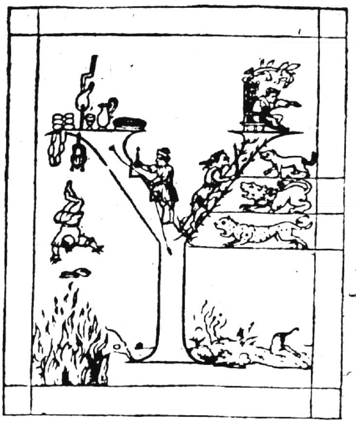 Page from the work Champ Fleury : auquel est contenu l'art et science de la deue et vraye proportio des lettres ... Described a few pages earlier, Tory credits Pythagoras with the invention of the Y: "JE ne veulx icy oublier a dire que Ypsilon fut jadis invente du noble Philosophe natif de l'Isle de Samos nomme Pythagoras, en la quelle lettre il figu moralisant que Hercules, c'est a dire l'Homme dispose a Vertus, au temps qu'il estoit en son jeune aage de la dicte adolescence, allant ung jour pensif par les champs a l'escard / vint a ung grant chemin qui forcheoit & se divisoit en deux aultres chemins, desquelz l'ung estoit moult large / & l'aultre bien estroit, & au large veit une femme nommee Volupte, qui luy tendoit la main pour le y faire entrer. Au chemin estroit estoit une Dame nommee Vertus, qui pareillement le vouloit faire entrer & cheminer en sa voye." The man on the left side of the drawing plummeting into the fire is what was known in the classical tradition as a falling diphthong.